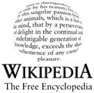 This Wikipedia logo was designed by "The Cunctator" and won the first Wikipedia logo contest, which took place from November to December 2001. This original contest drew 24 entries, the last of which was the winning one. The quotation in the graphic is: Man is distinguished, not only by his reason, but by this singular passion from other animals, which is a lust of the mind, that by a perseverance of delight in the continual and indefatigable generation of knowledge, exceeds the short vehemence of any carnal pleasure. Taken from Thomas Hobbes's Leviathan, Part I, Chapter VI: Desire to know why, and how, curiosity; such as is in no living creature but man: so that man is distinguished, not only by his reason, but also by this singular passion from other animals; in whom the appetite of food, and other pleasures of sense, by predominance, take away the care of knowing causes; which is a lust of the mind, that by a perseverance of delight in the continual and indefatigable generation of knowledge, exceedeth the short vehemence of any carnal pleasure. History previous wikipedia logo, from history of image:Wiki.png